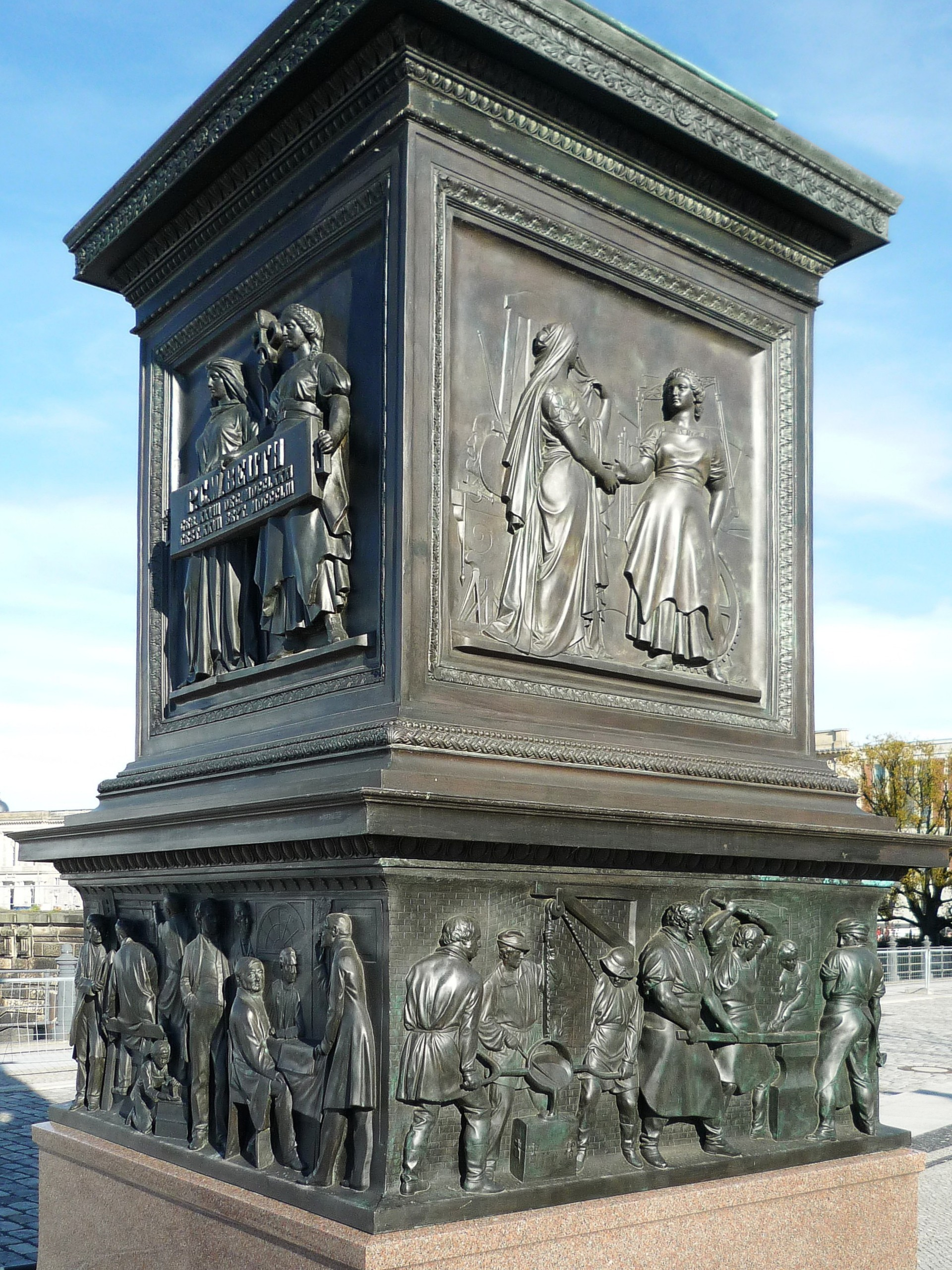 "Schinkelplatz" in Berlin-Mitte. Pedestal of the monument for Peter Christian Wilhelm Beuth. Sculptor of the reliefs was Friedrich Drake. The are symbolic for the tecnical achievements of the early 19. century and the professional activities of Beuth